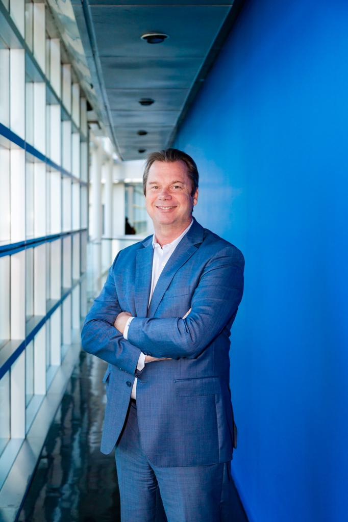 Jérôme Rivière at the European Parliament in 2019